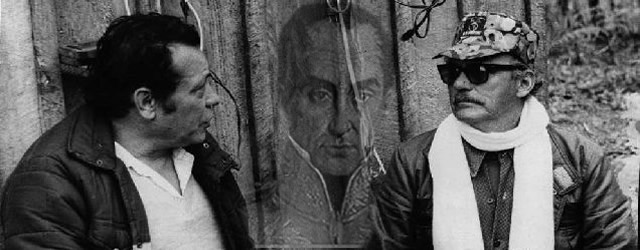 Manuel Marulanda and Jacobo Arenas